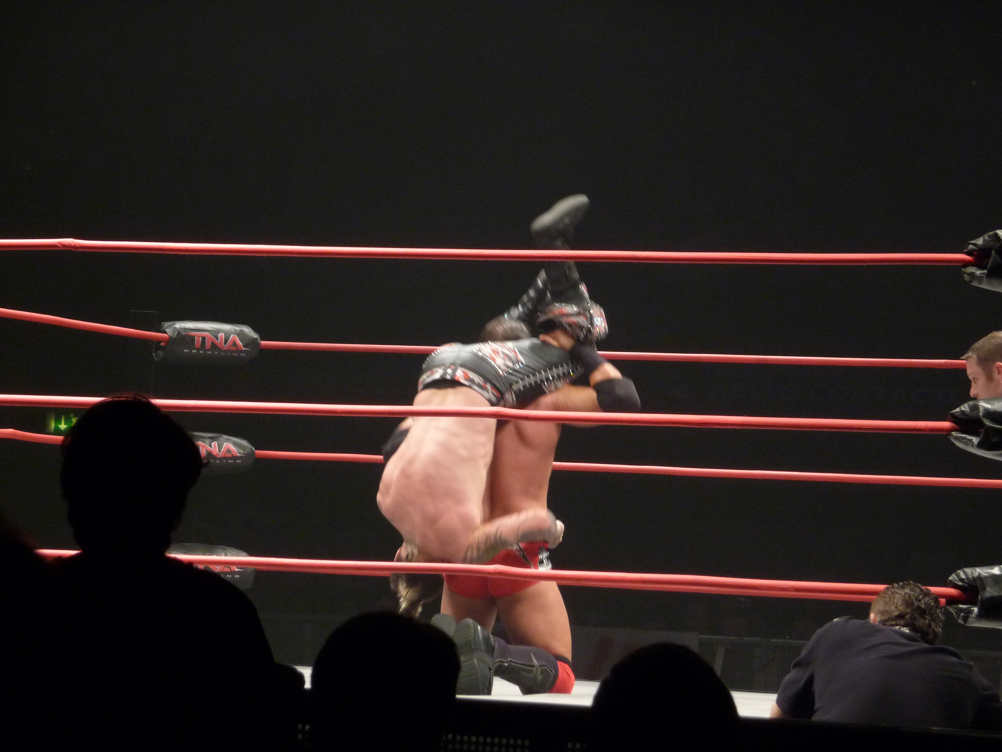 X-Division Title match